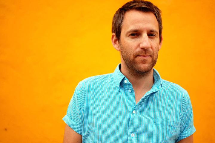 Portrait in front of yellow wall.